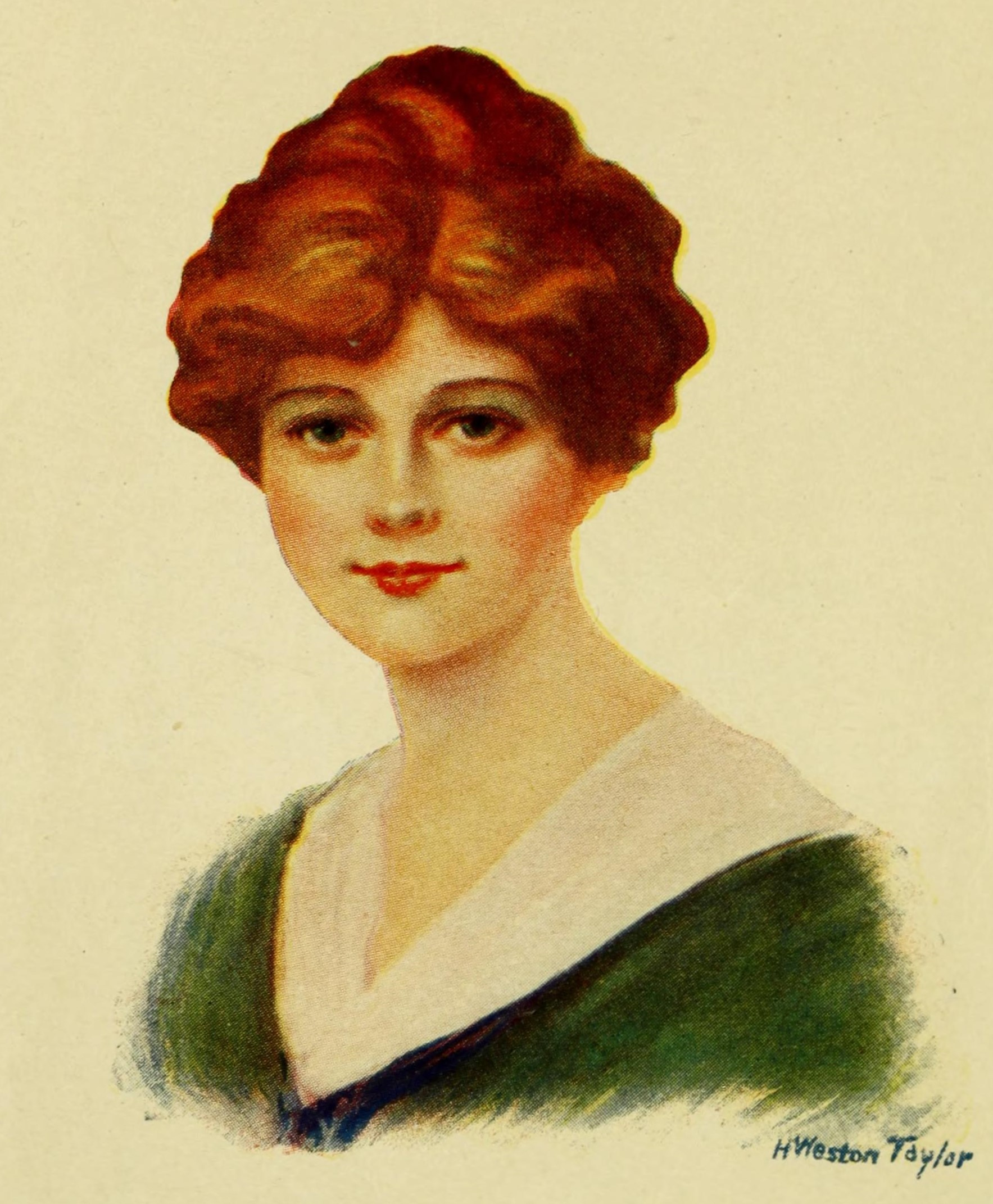 Illustration of Anne Shirley by H. Weston Taylor as the frontispiece of Anne of the Island, published 1920.